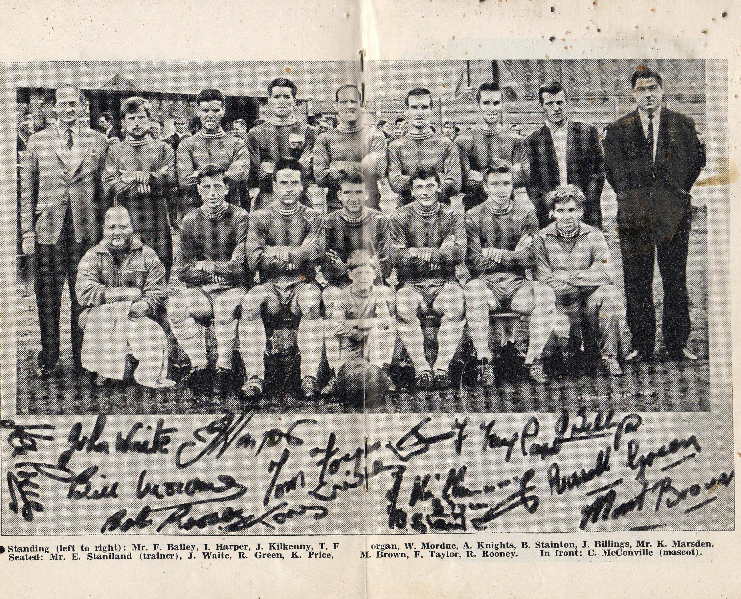 Gainsborough Trinity. The team which won the Midland League in 1966-1967. The picture was scanned from the souvenir booklet "Champions" (price 2/-). I think the photograph was taken before the championship clincher against Heanor, which Trinity won 3-2, after conceding a goal in the first minute.